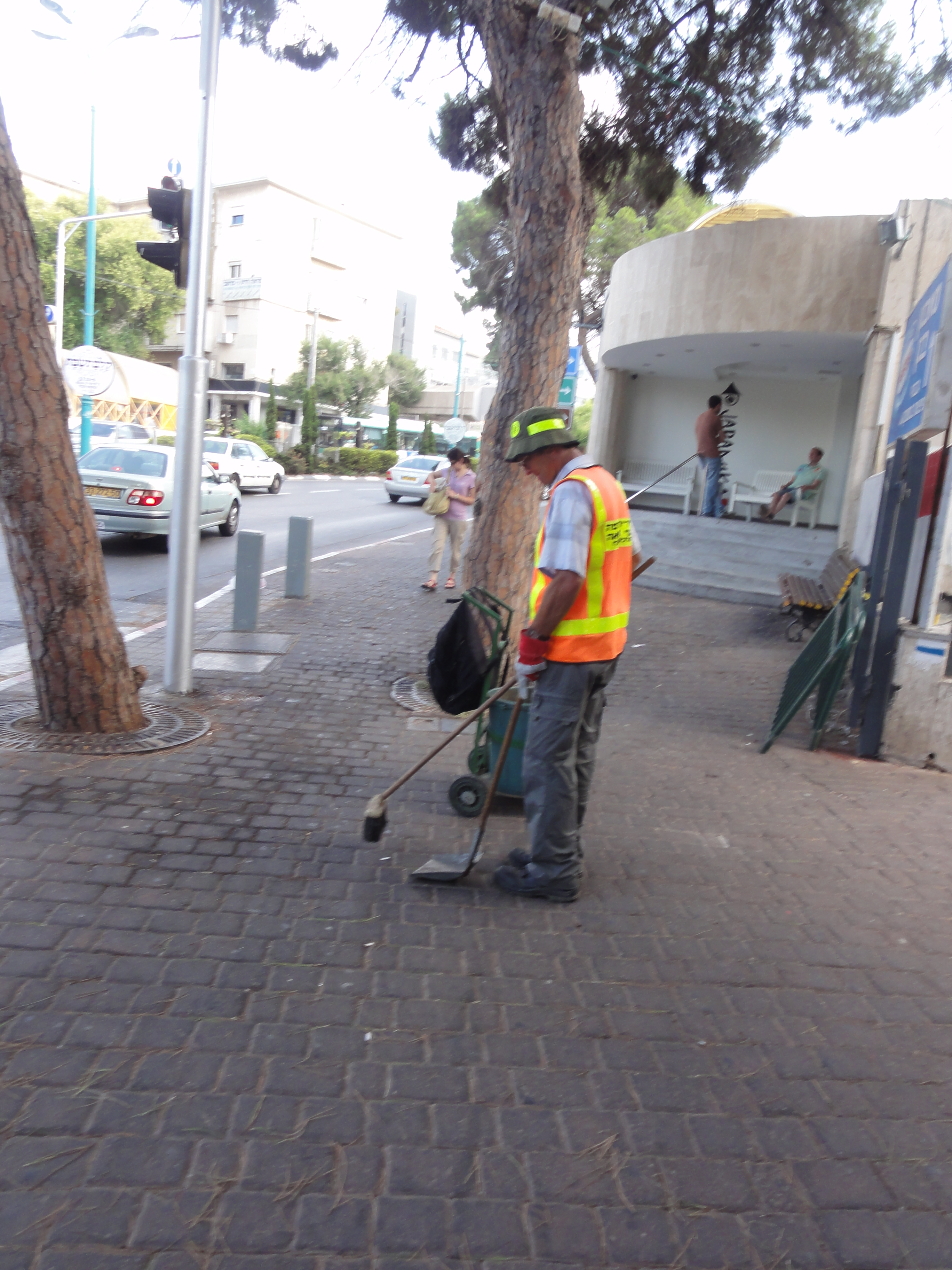 Haifa, Israel - Street sweeper at work. Info GPS data may be inaccurate. EXIF data regarding date and time may be inaccurate.